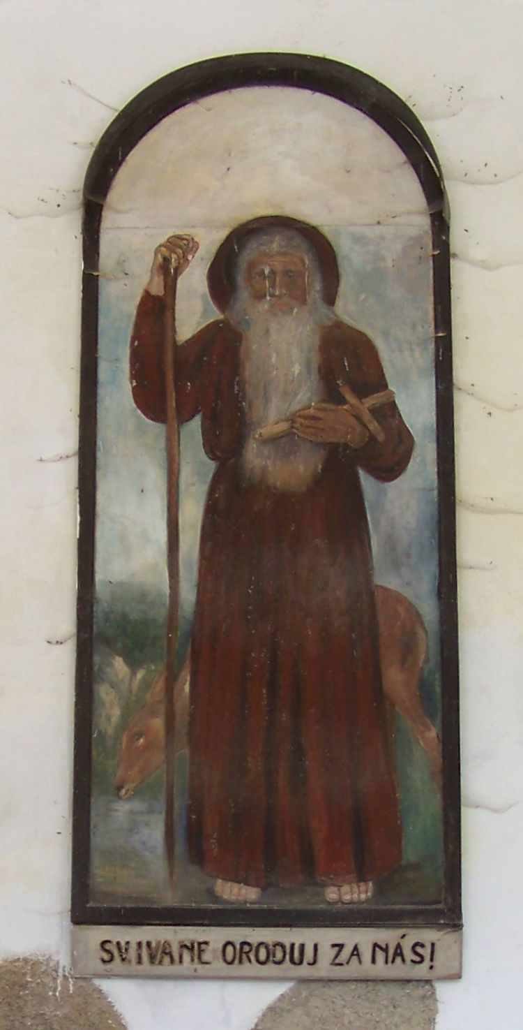 Svatý Jan pod Skalou, Beroun District, Central Bohemian Region, the Czech Republic. A painting of Saint Ivan.